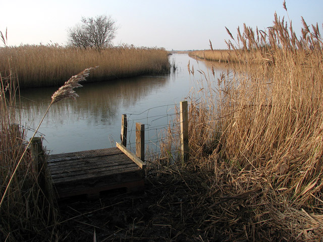 View into Martham Broad Landing stages along the West Somerton Boat Dyke allow views towards the reed beds surrounding Martham Broad Nature Reserve. Here the dyke is flowing into Martham Broad. Martham Broad National Nature Reserve forms part of the Upper Thurne Broads and Marshes SSSI and is owned and managed by Norfolk Wildlife Trust. The reserve consists of open shallow brackish water surrounded by reeds and sedge fens and is believed to have been created by the flooding of peat bogs prior to the 13th century. Due to its excellent water quality, the broad has one of the most diverse assemblages of aquatic plants in Broadland. The surrounding reed swamp is composed of common reed and commercial sedge beds.